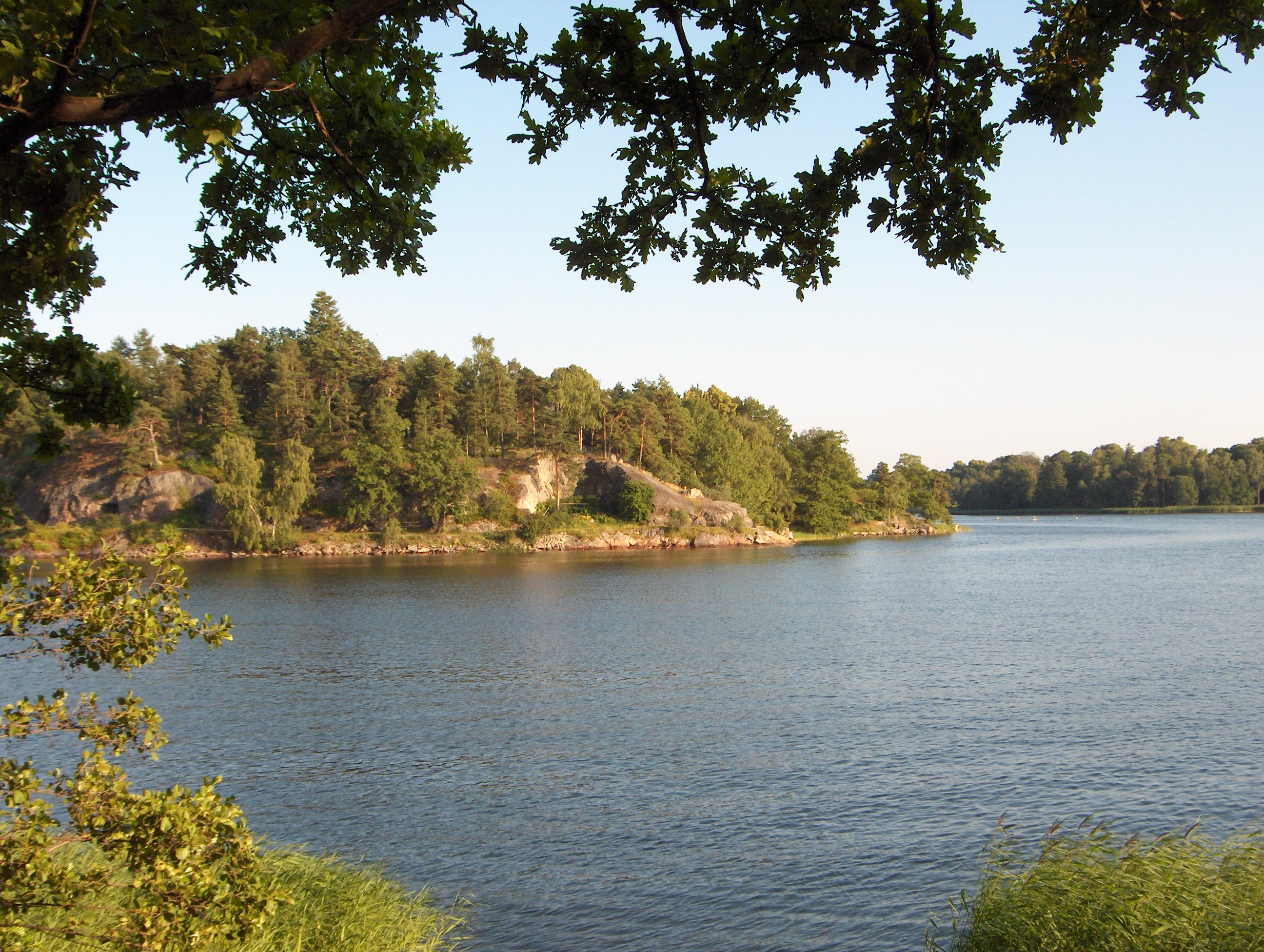 Brunnsviken as viewed from Tivoli, Bergshamra, Solna, Sweden.